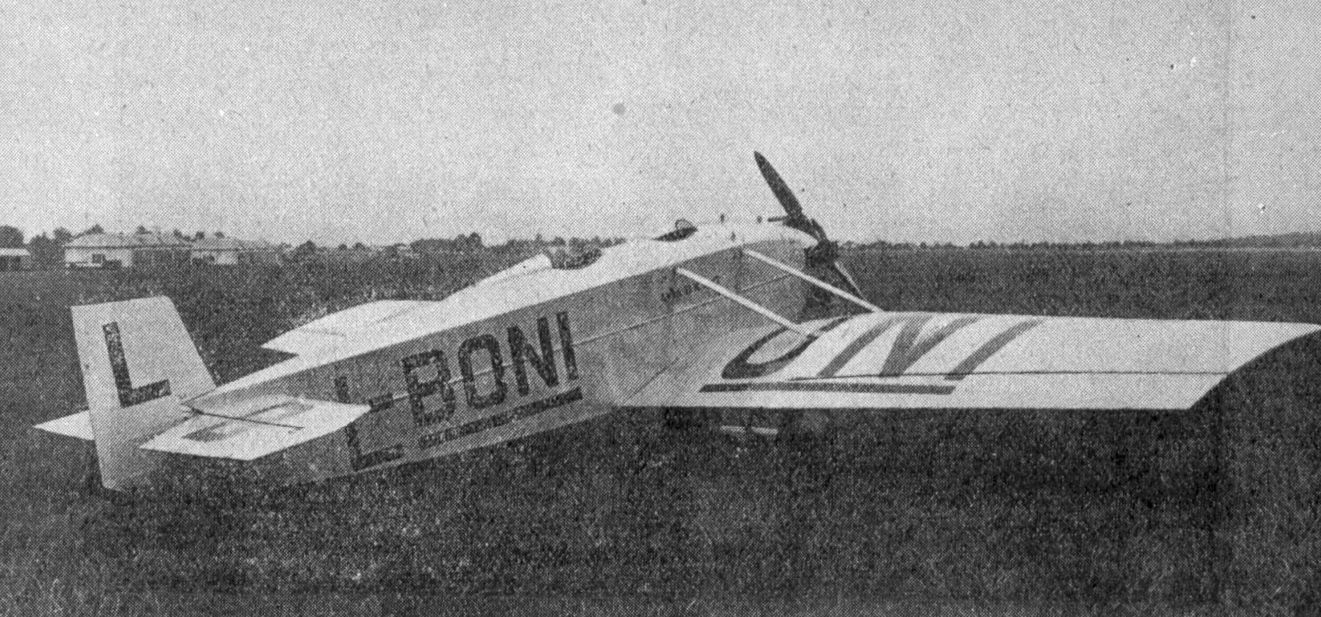 Avia BH-11C photo from L'Aérophile August,1926